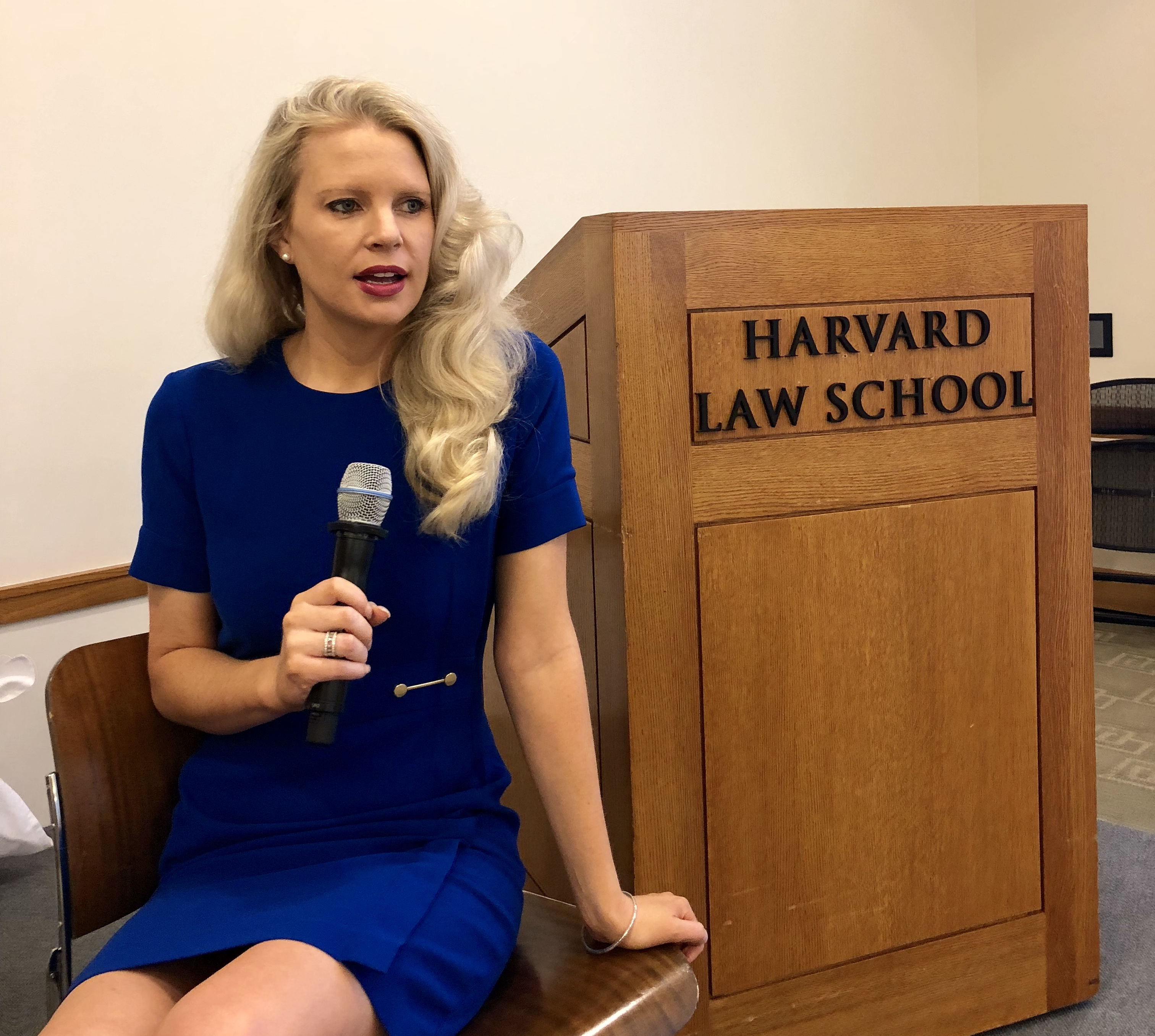 Shivaune Field speaks on a panel on Technology and the impact on society at Harvard Law School